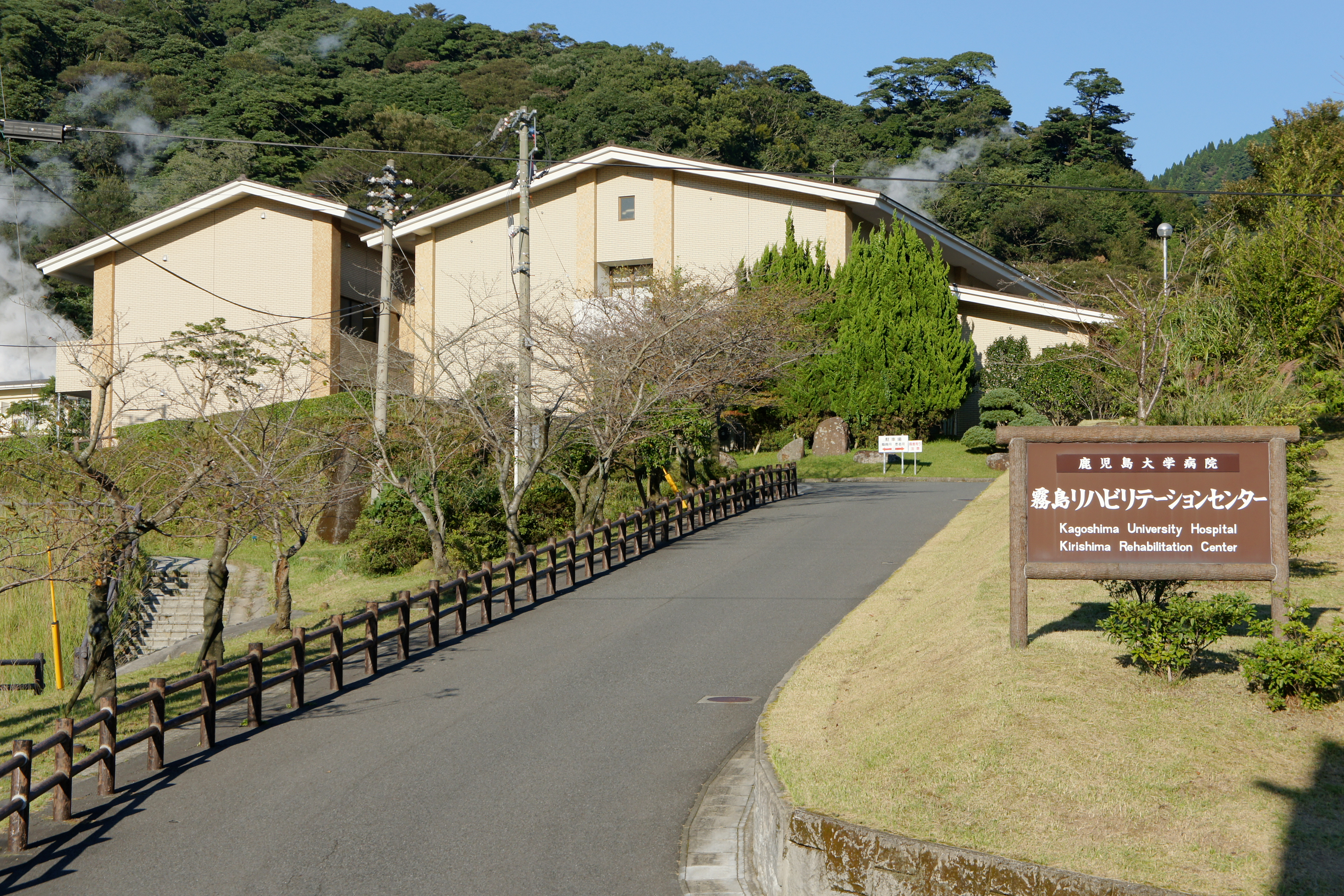 Maruo Onsen of Kirishima Onsens in Kirishima, Kagoshima prefecture, Japan.